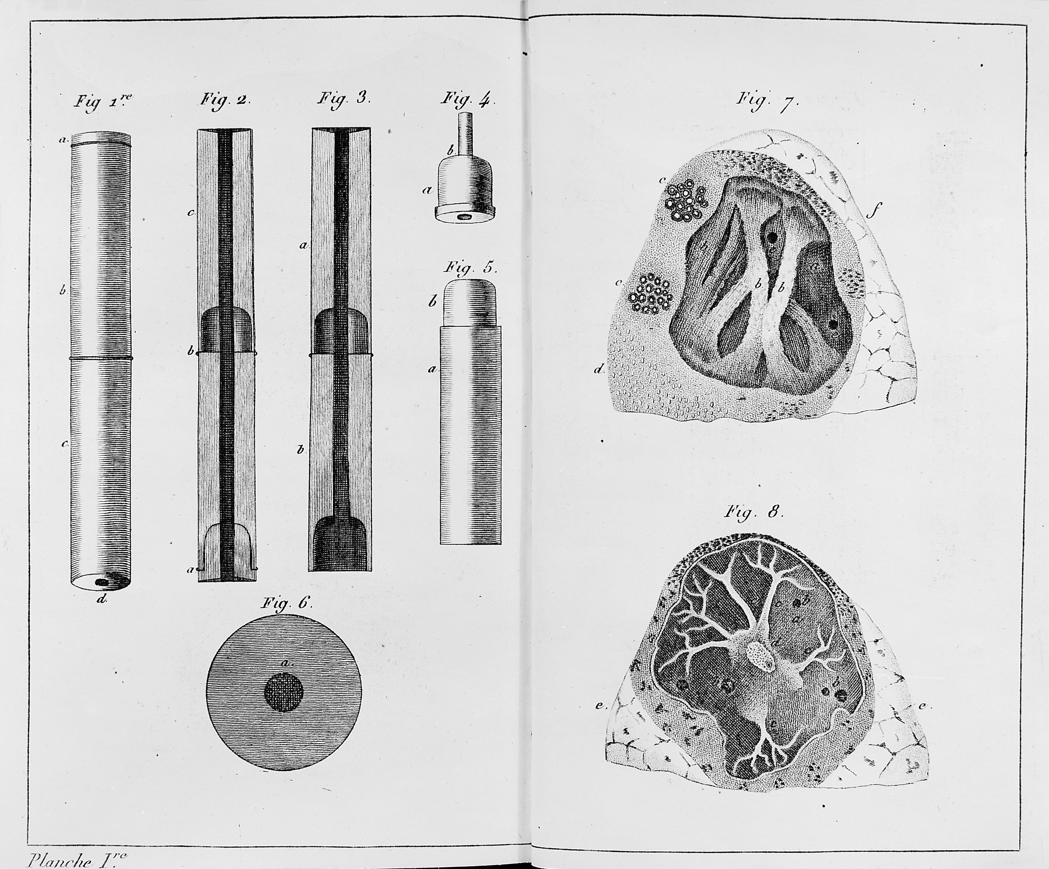 Laennec stethoscope, 1826 Rare Books Keywords: Rene Theophile Hyacinthe Laennec; Diagnosis